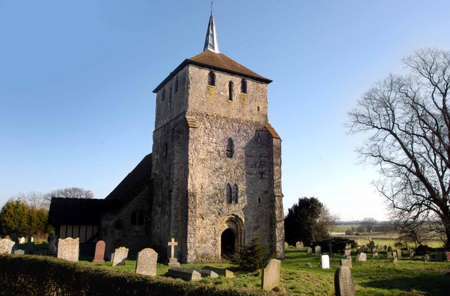 St. Mary Magdalene Church, Ruckinge, Kent The main structure ofthis church has 12th C. origins. It was largely rebuilt in the 14th. C.